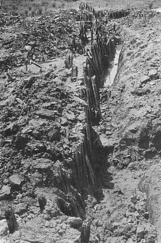 Discovery of Toro Site